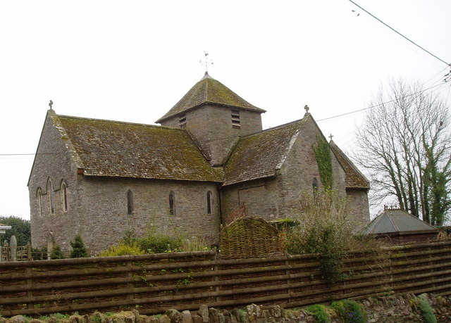 St David's Church, Llanddew The earliest part of this church date back to the 13th century. It is situated in the tiny hamlet of Llanddew, near Brecon.